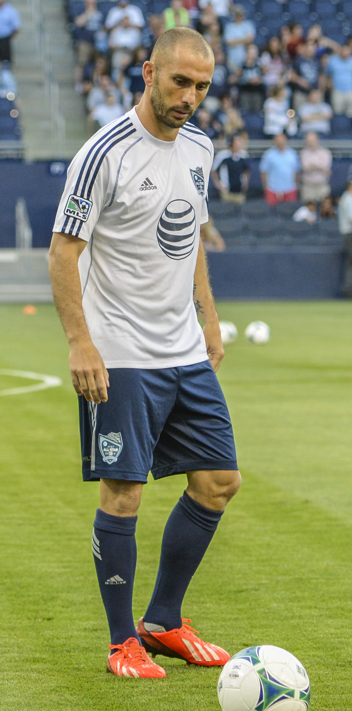 Marco di Vaio warming up at the 2013 MLS All Star game at Sporting Park, in Kansas City, Kansas. 31JUL2013